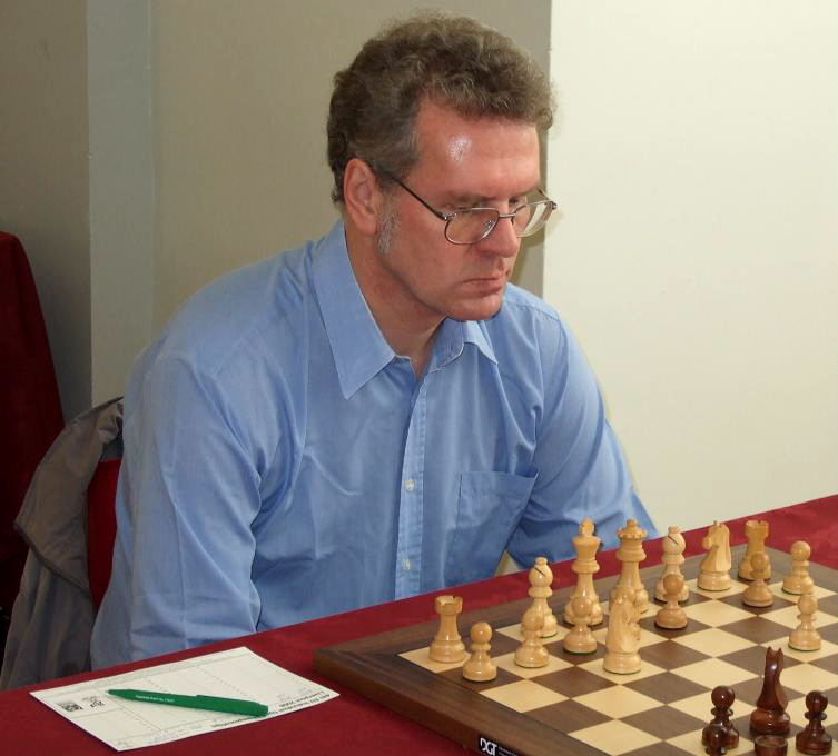 GM Colin McNab - Round 6 of 4th EU Individual Open Ch., Liverpool World Museum, William Brown Street